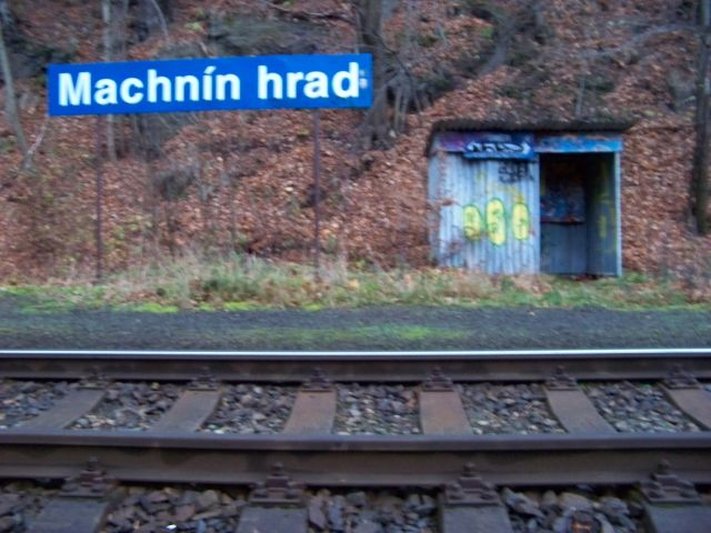 Liberec XXXIII-Machnín, Liberec District, Liberec Region, Czech Republic. Train stop "Machnín hrad".